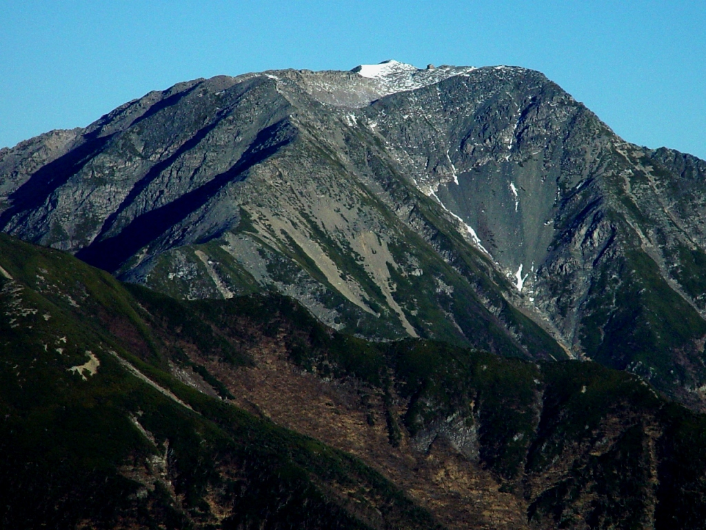 Akaishidake_from_Kamikochidake_2003-11-23